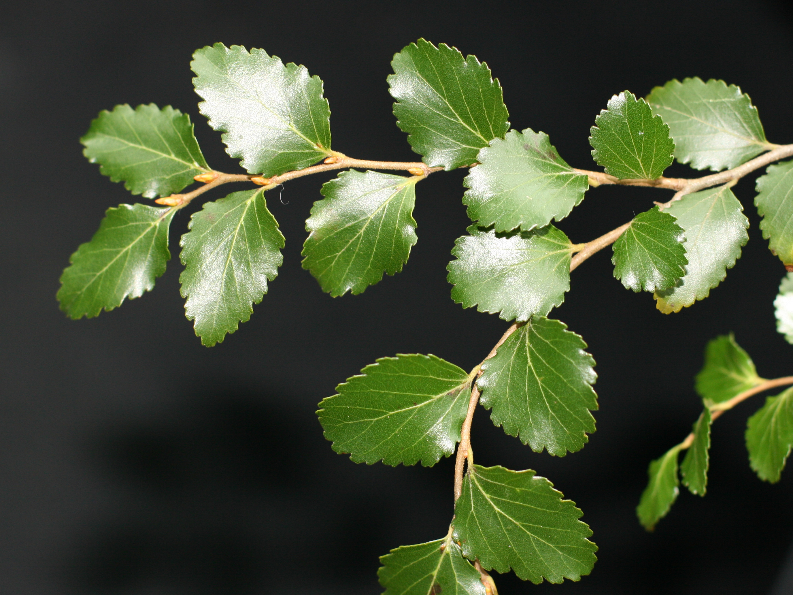 Lophozonia menziesii, foliage of Silver Beech, Auckland, New Zealand.